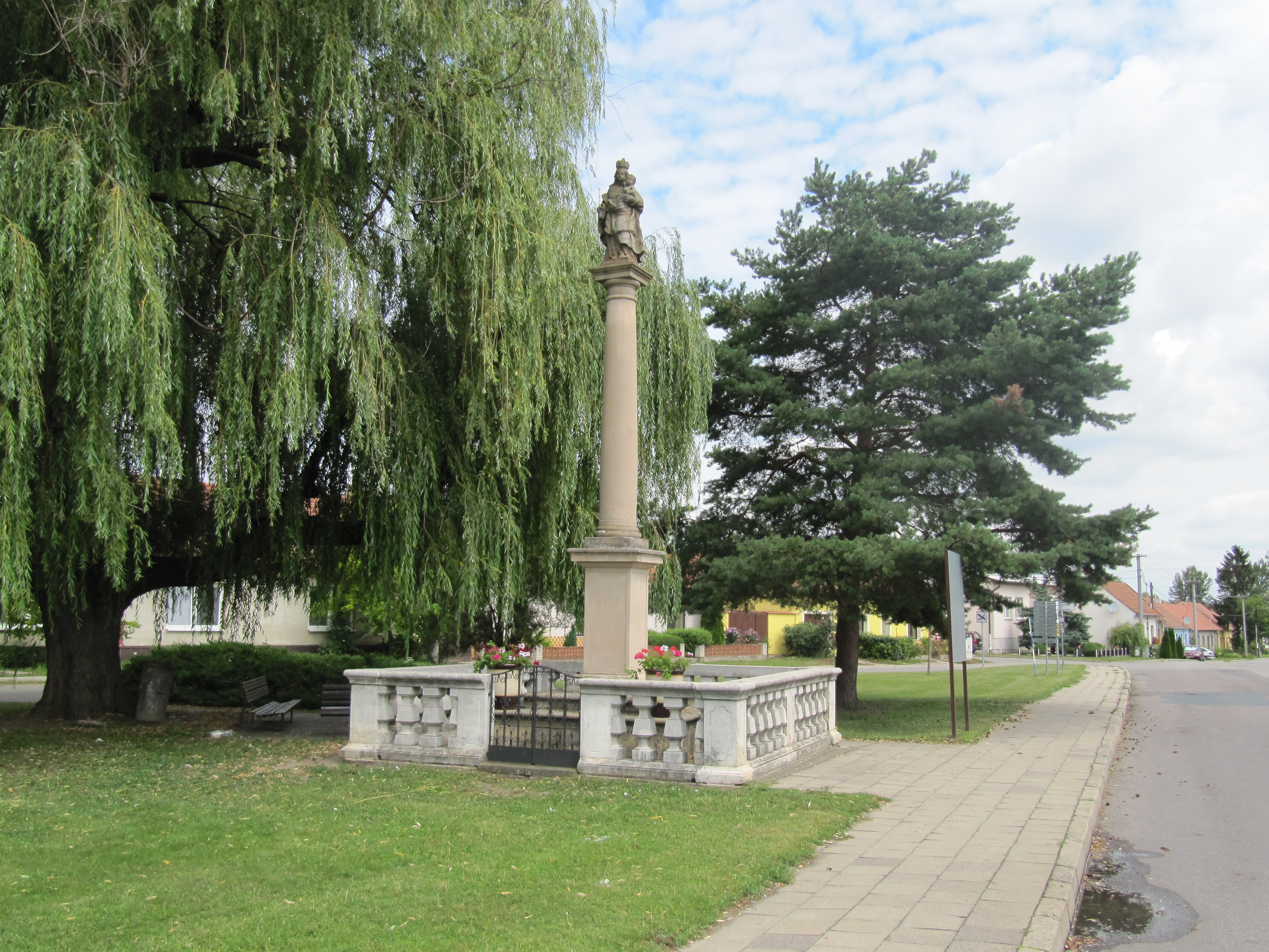 Novosedly in Břeclav District, Czech Republic. Column with a statue of Virgin Mary.